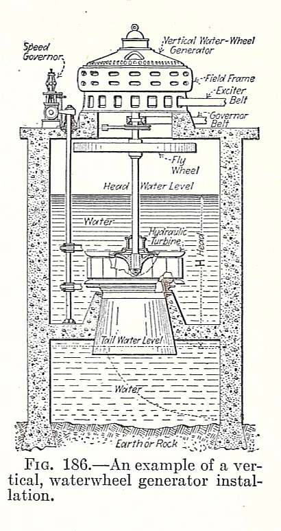 Fig. 186 Vertical waterwheel generator See other images from this source in 'Electrical Machinery'